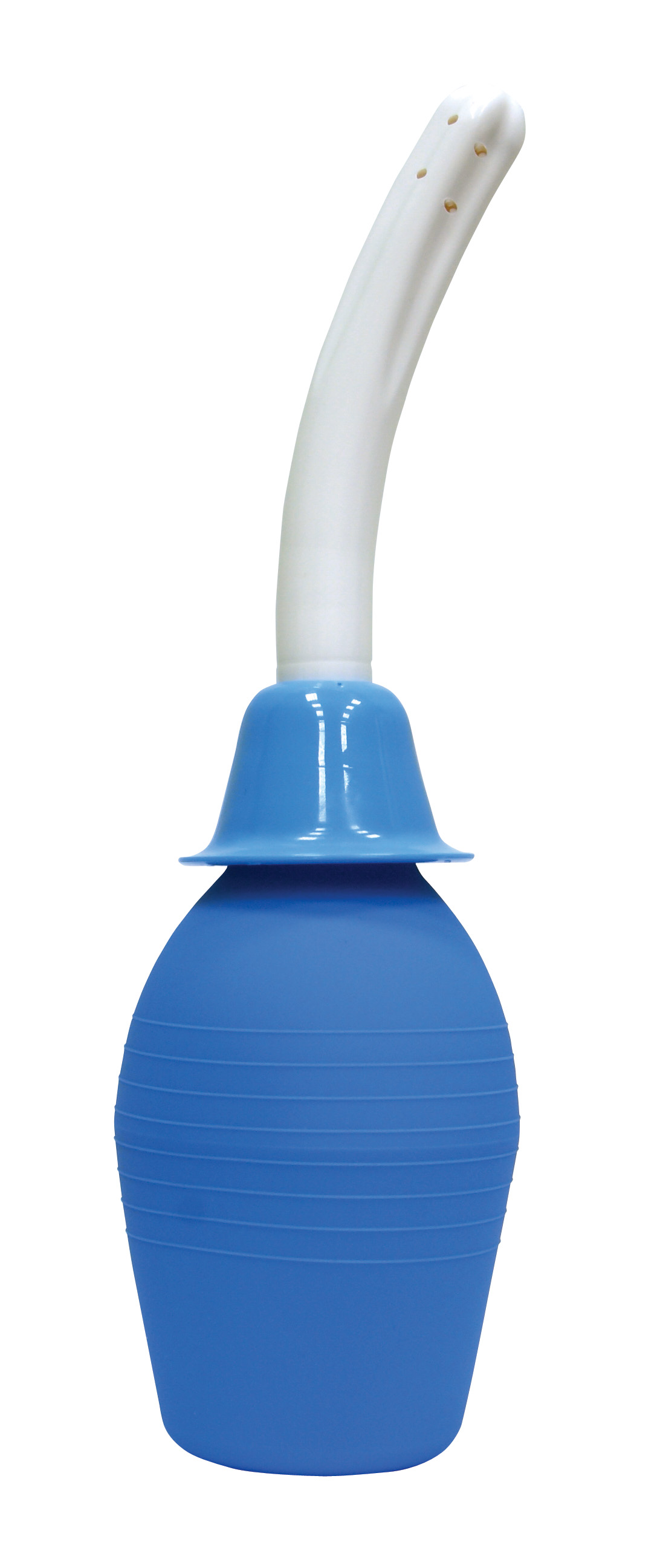 Syringe gynaecological